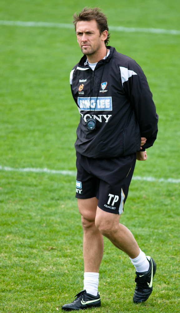 Tony Popovic coaching at a Sydney FC training session.